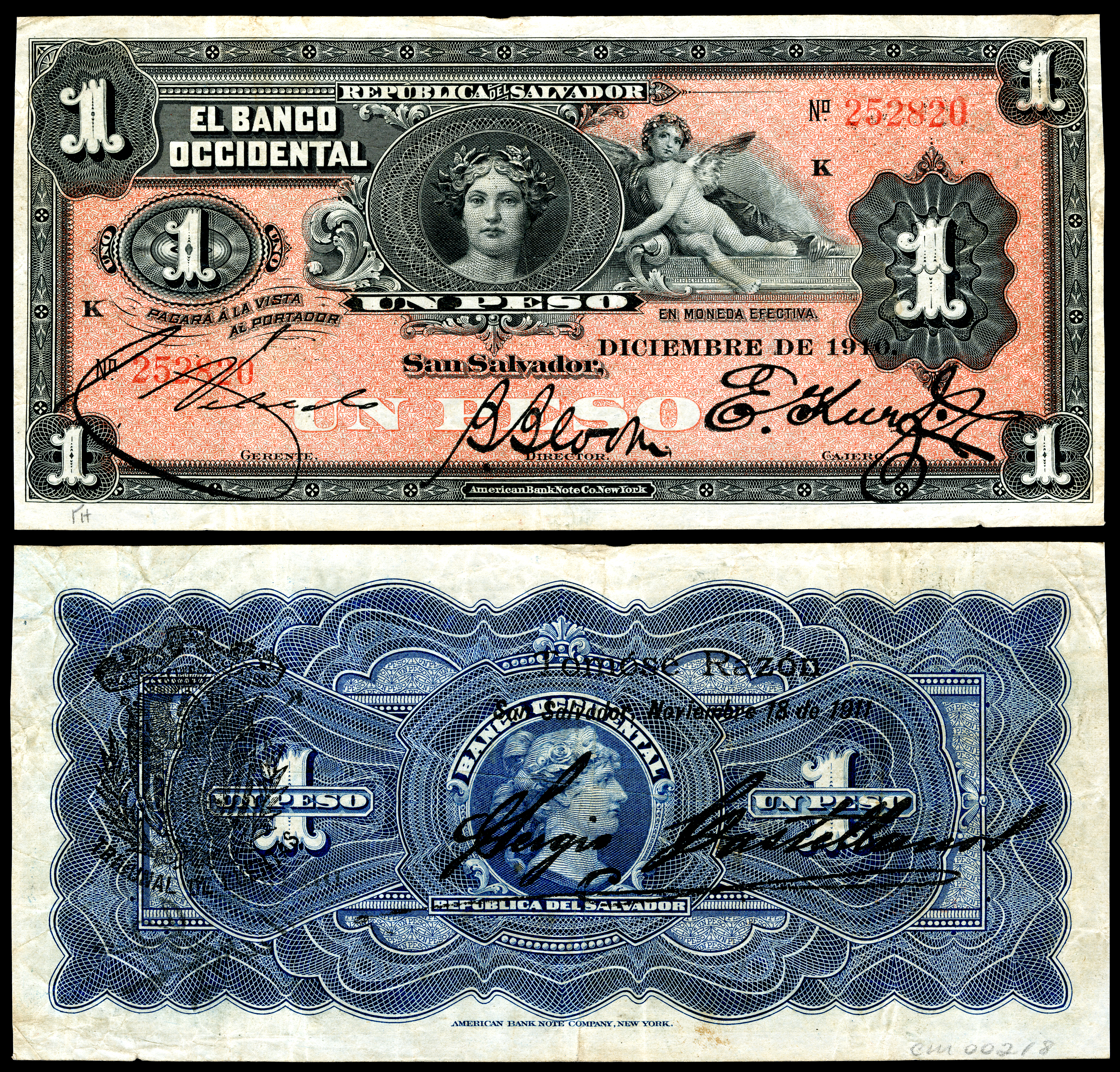 El Salvador, Banco Occidental, 1 peso (1910). Engraved by the American Bank Note Company.